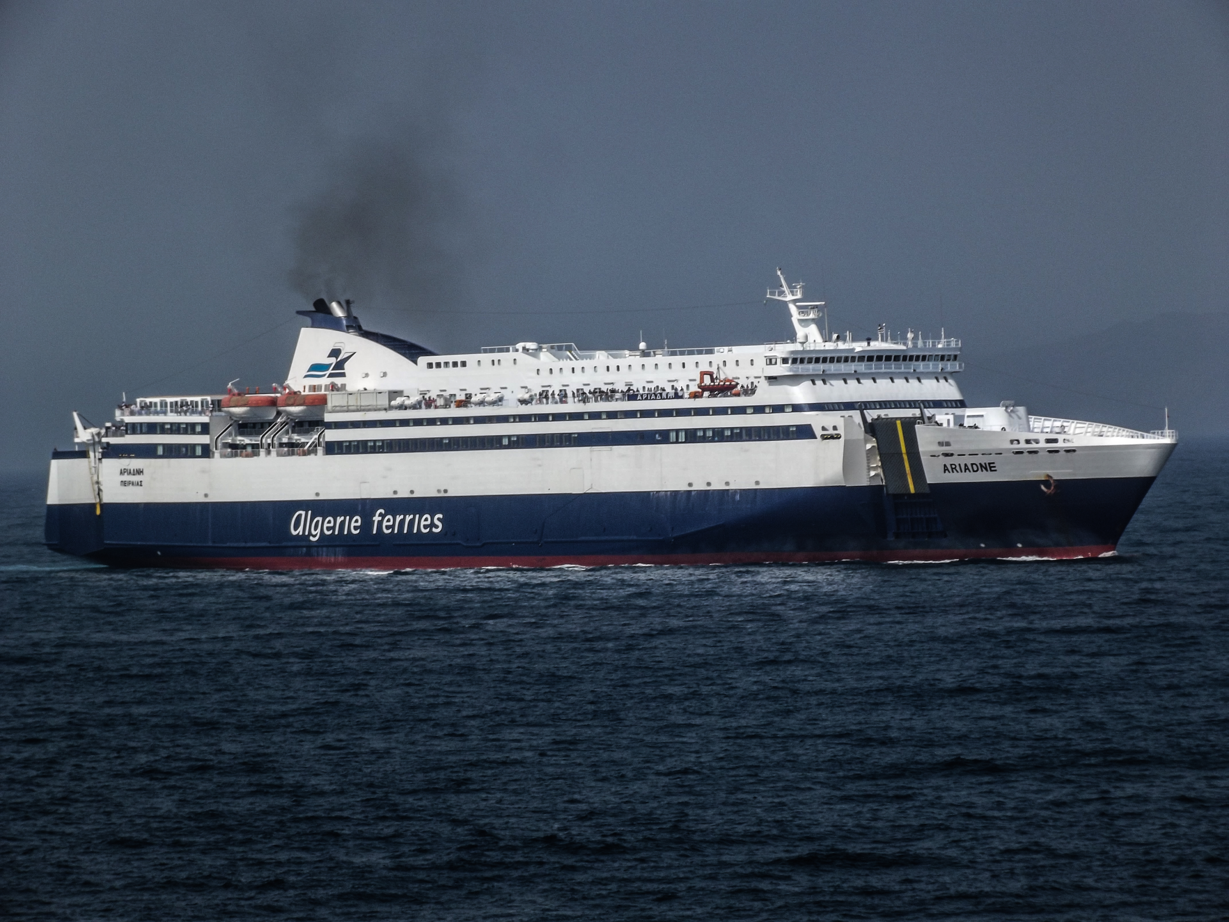 Ariadne